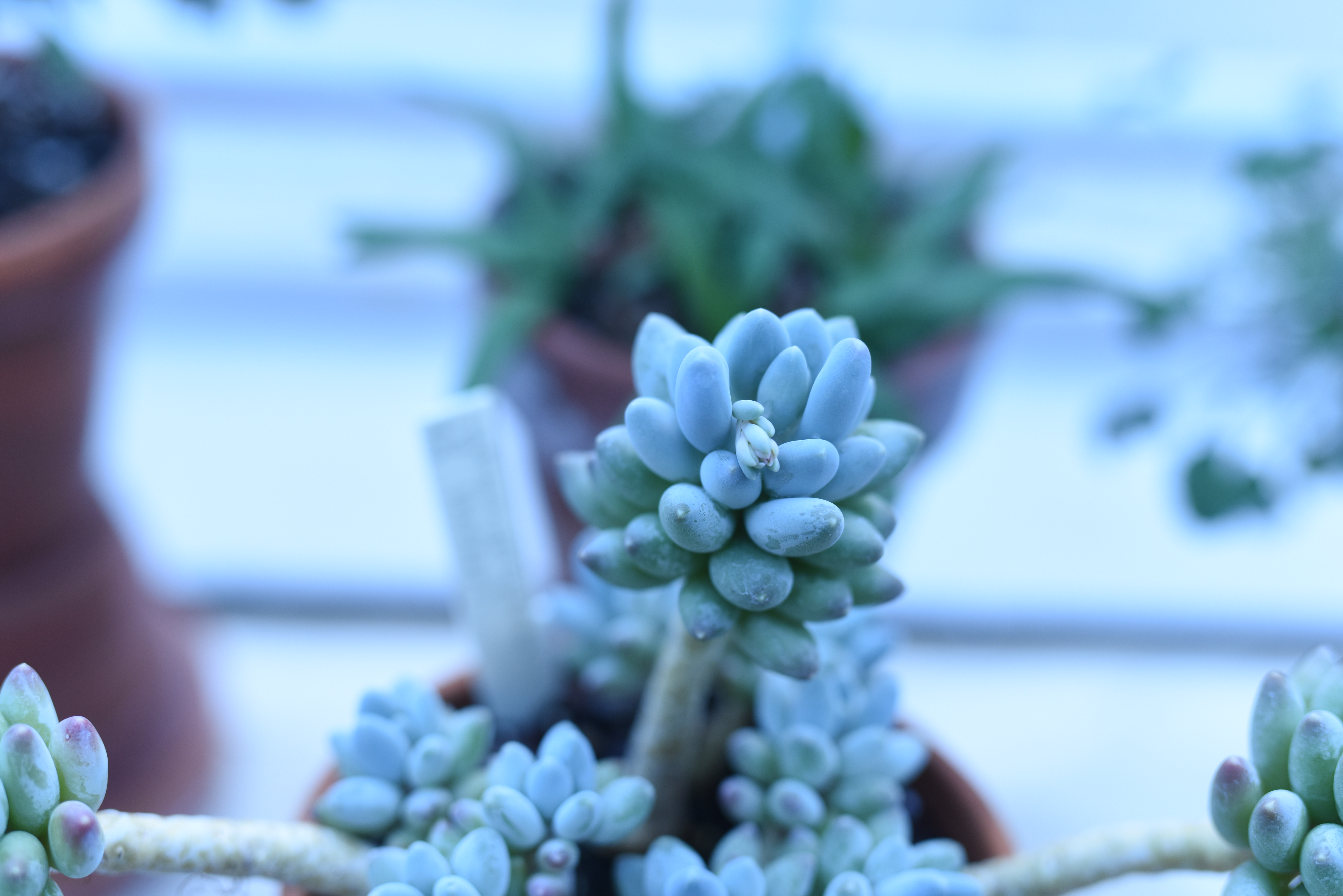 Talcott Greenhouse interoir.